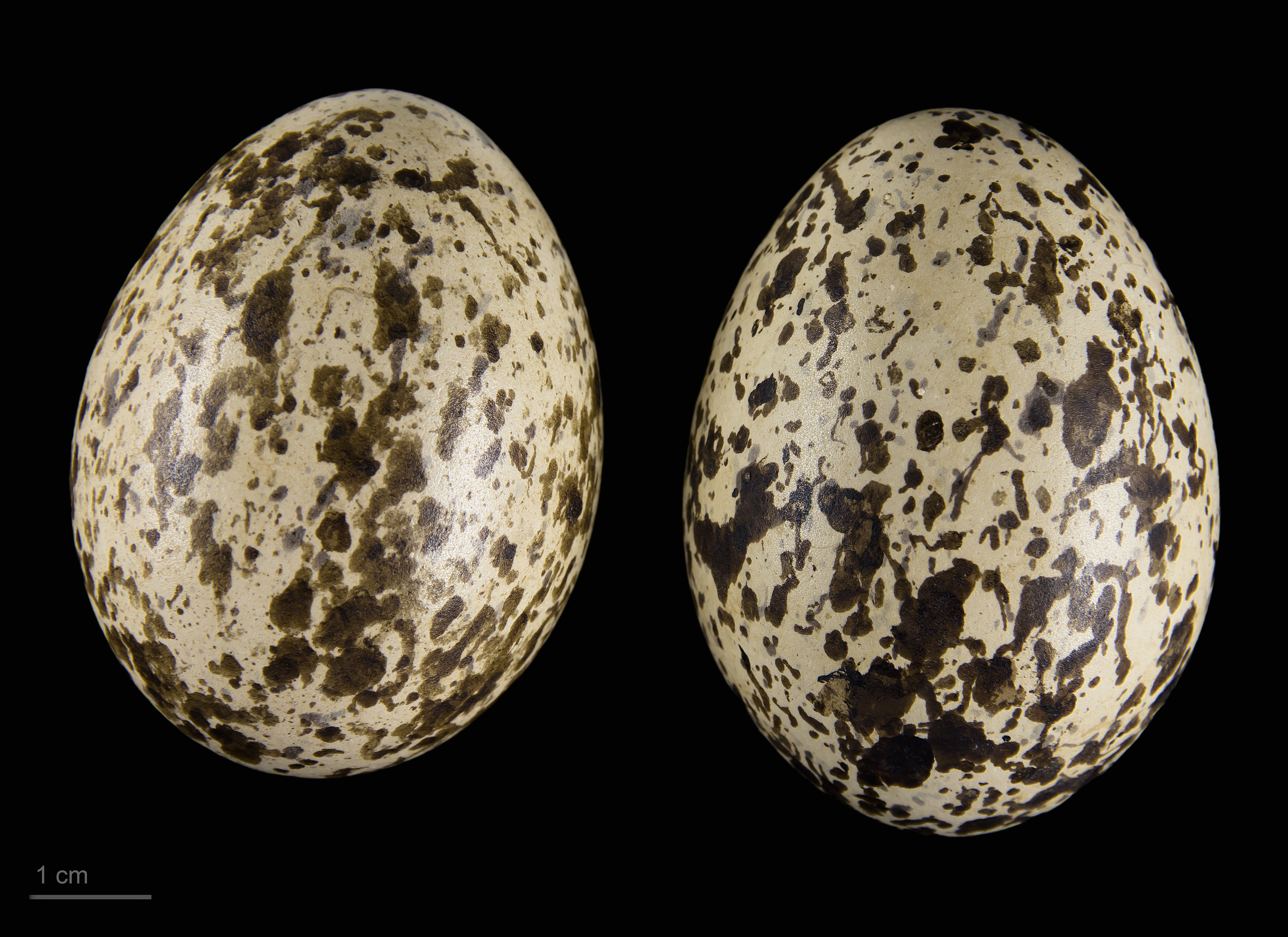 Eggs of Eurasian stone-curlew Two specimens of the same spawn ; collection of Jacques Perrin de Brichambaut.